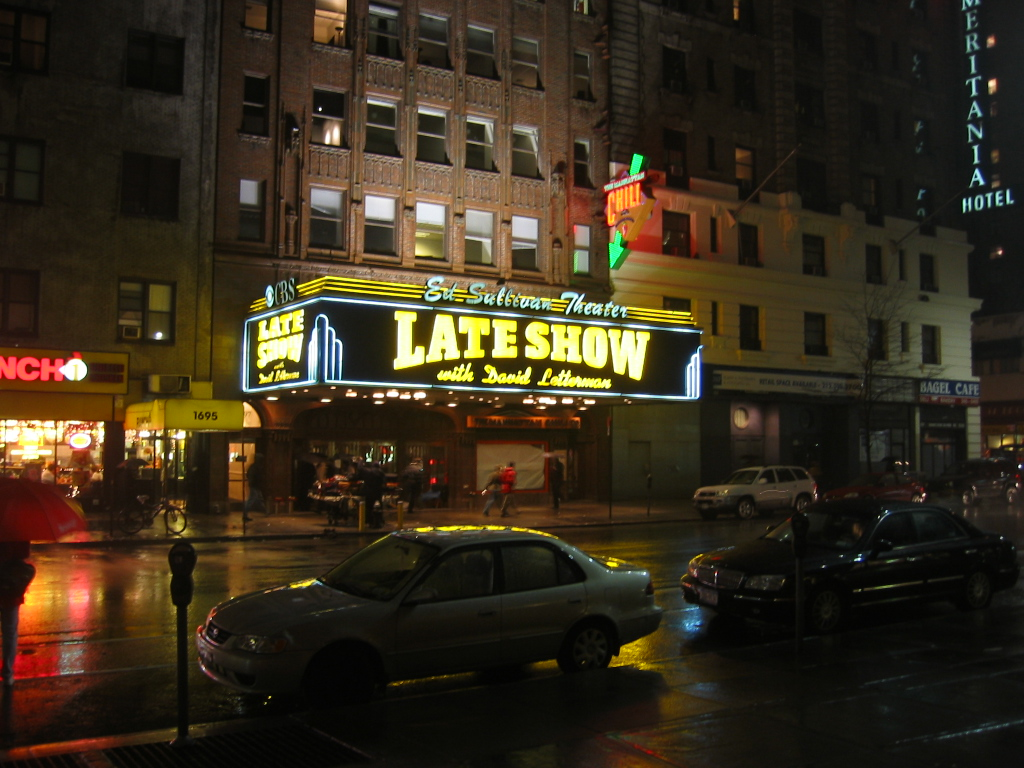 Photo taken by Dudesleeper on December 10, en:2004.